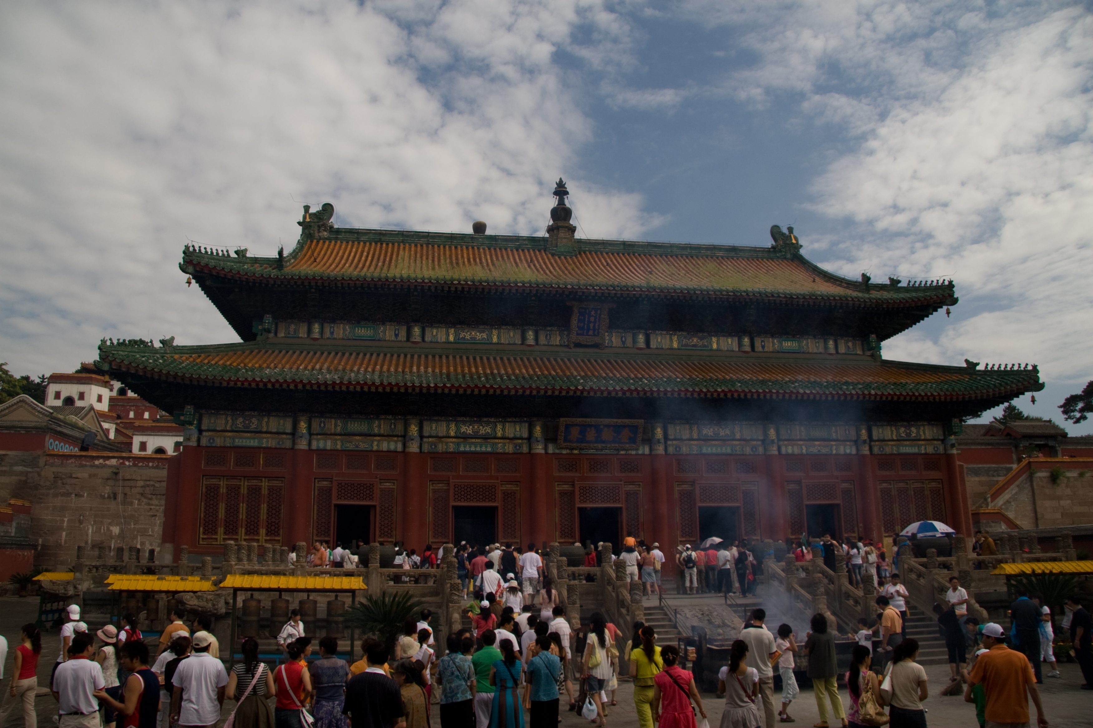 Chengde, China